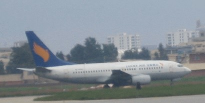 Lucky Air